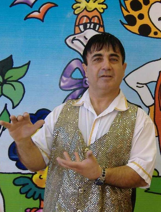 vהקוסם דנדי מופע יום הולדת